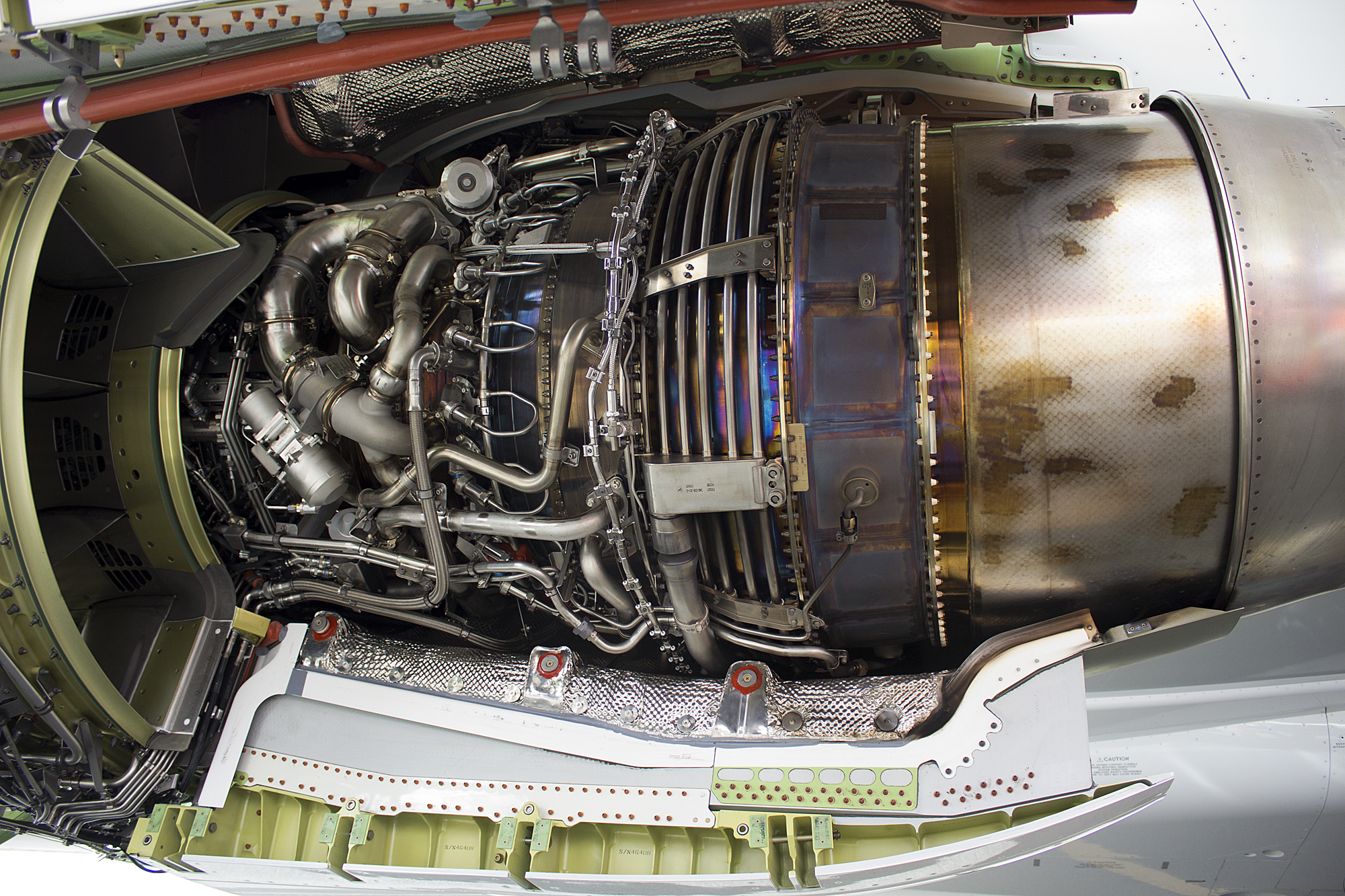 CFM International CFM56-7B26 fitted to Qantas (VH-VZY) Boeing 737-838 (WL) at the Canberra International Airport open day.